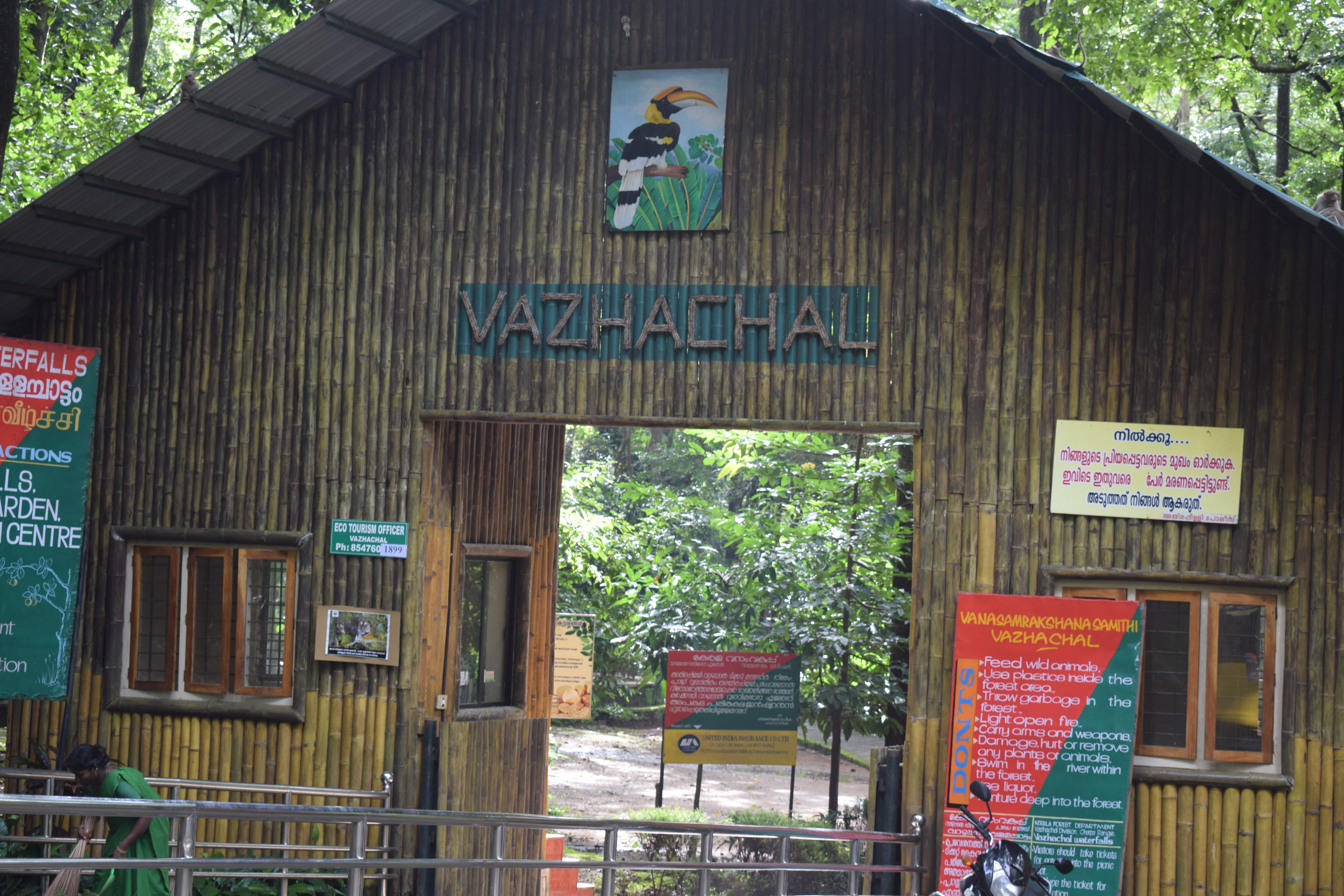 Entrance of Vazachal Water Falls, Vazachal Medicinal Garden